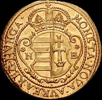 1 ducat coin, Hungary, Francis II Rákóczi (1705, NB) obverse [Huszár: 1522; Unger: 1125]